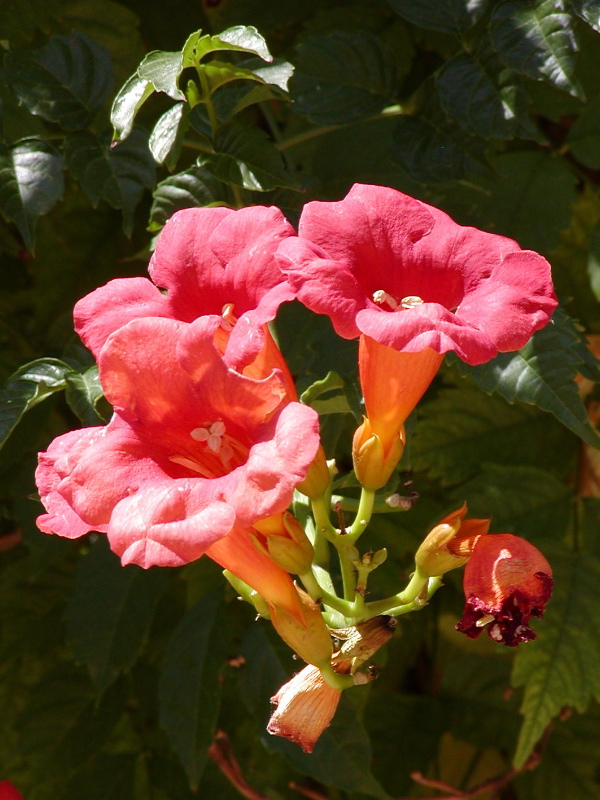 Photo of Campsis ×tagliabuana (trumpet vine) at the Desert Demonstration Garden in Las Vegas, Nevada